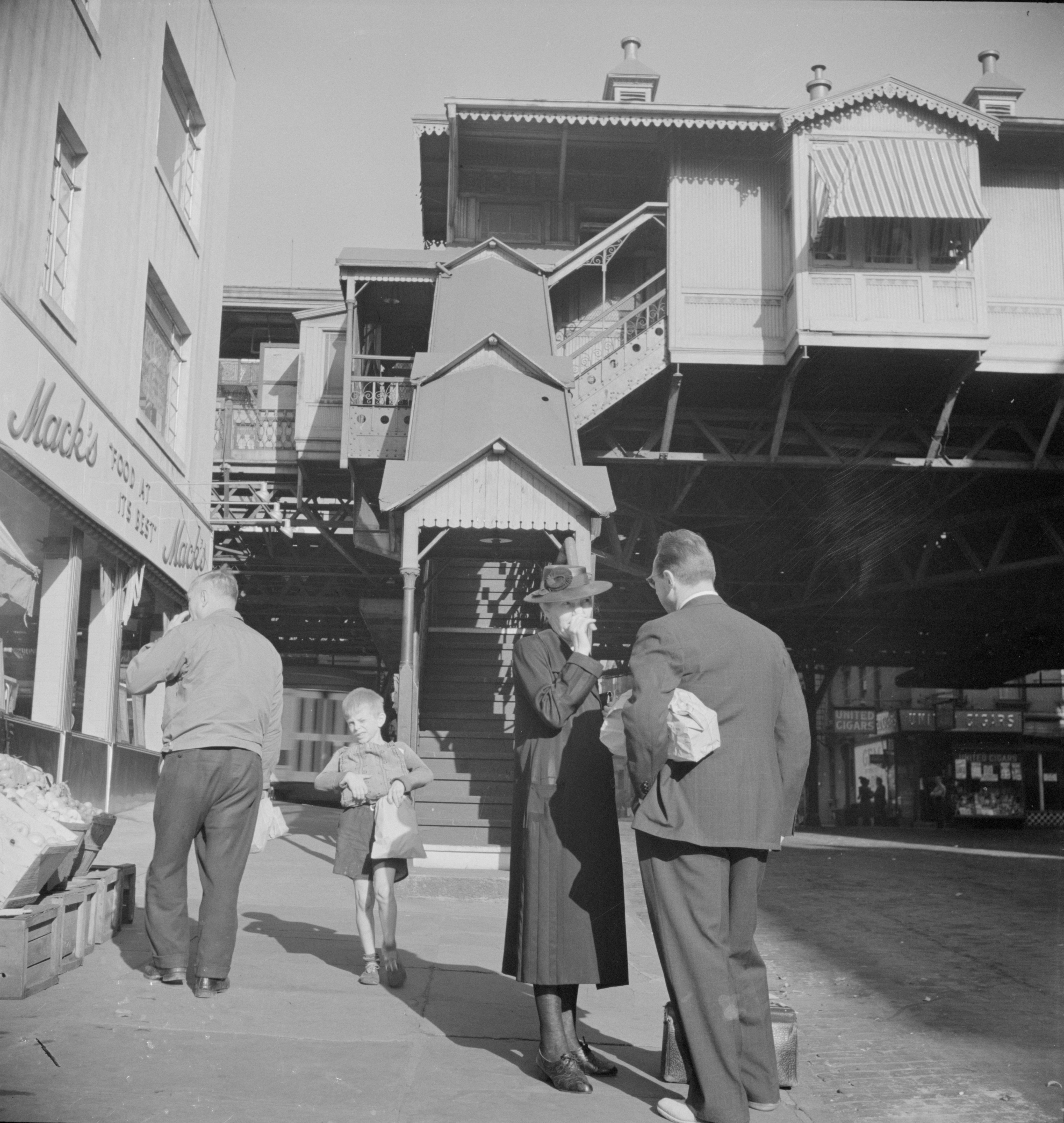 New York, New York. 94th Street. Station of the Third Avenue elevated railway at 8 a.m.